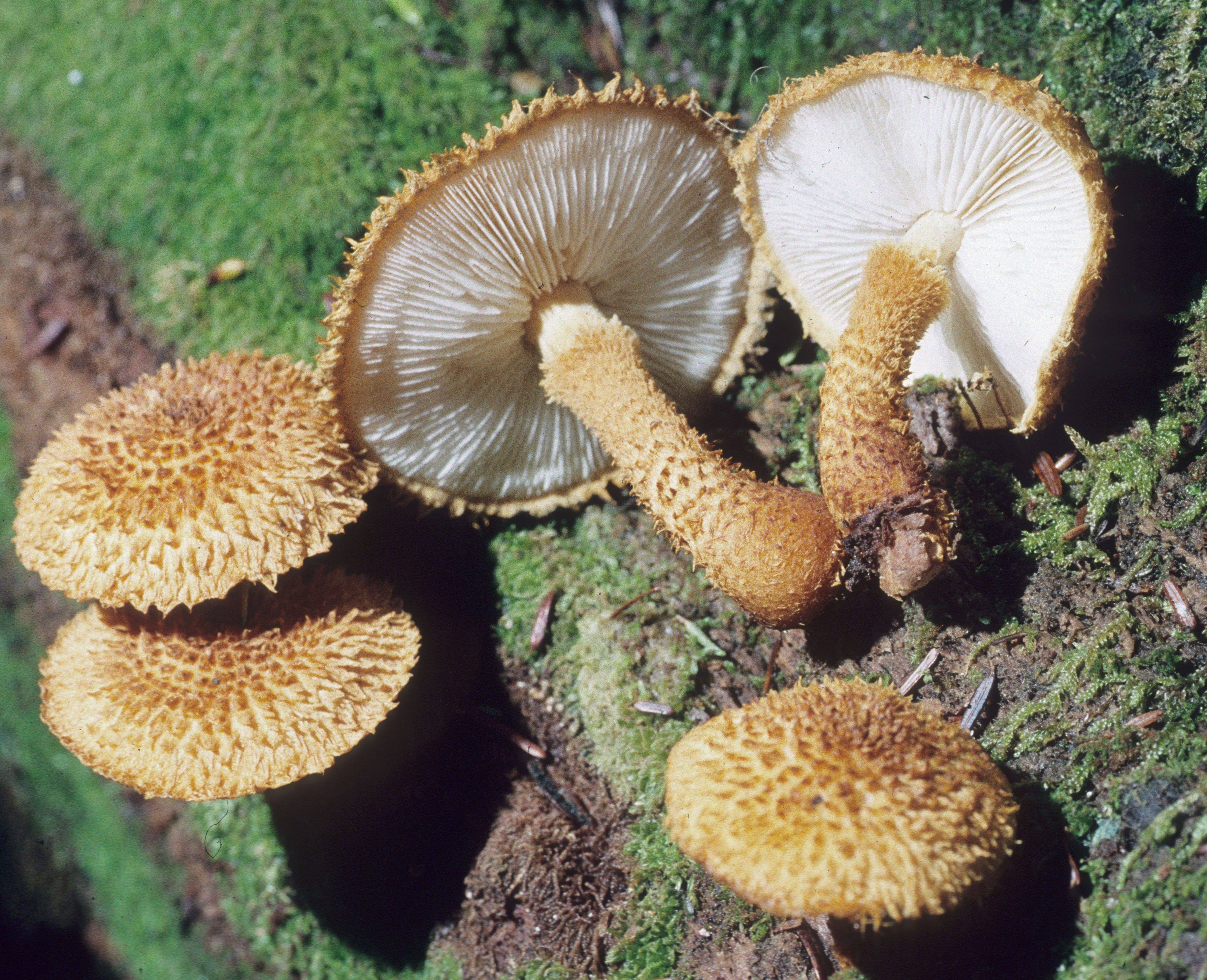 Fruit bodies of the fungus Leucopholiota decorosa (Peck) O.K. Mill., T.J. Volk & A.E. Bessette. Specimens photographed in Douglas Lake, Michigan, USA.